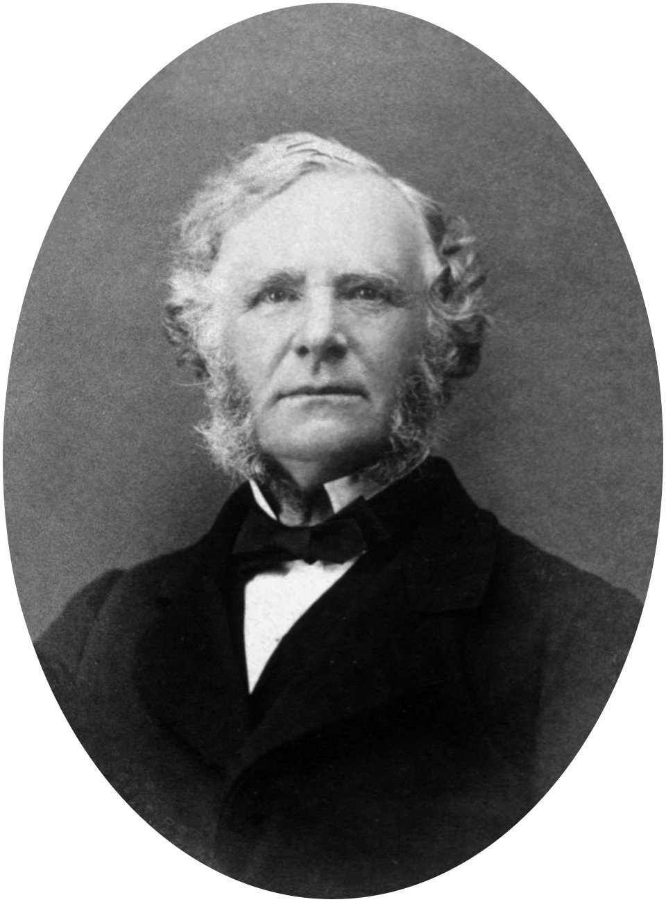 William James Erasmus Wilson, British physician